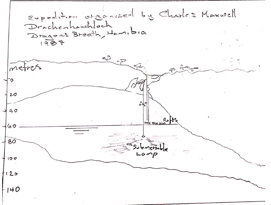 Subterranean lake of just over 2 hectares near here, one of the largest expanses of cave water in the world. Reputedly first investigated by Adam Duffy in 1986